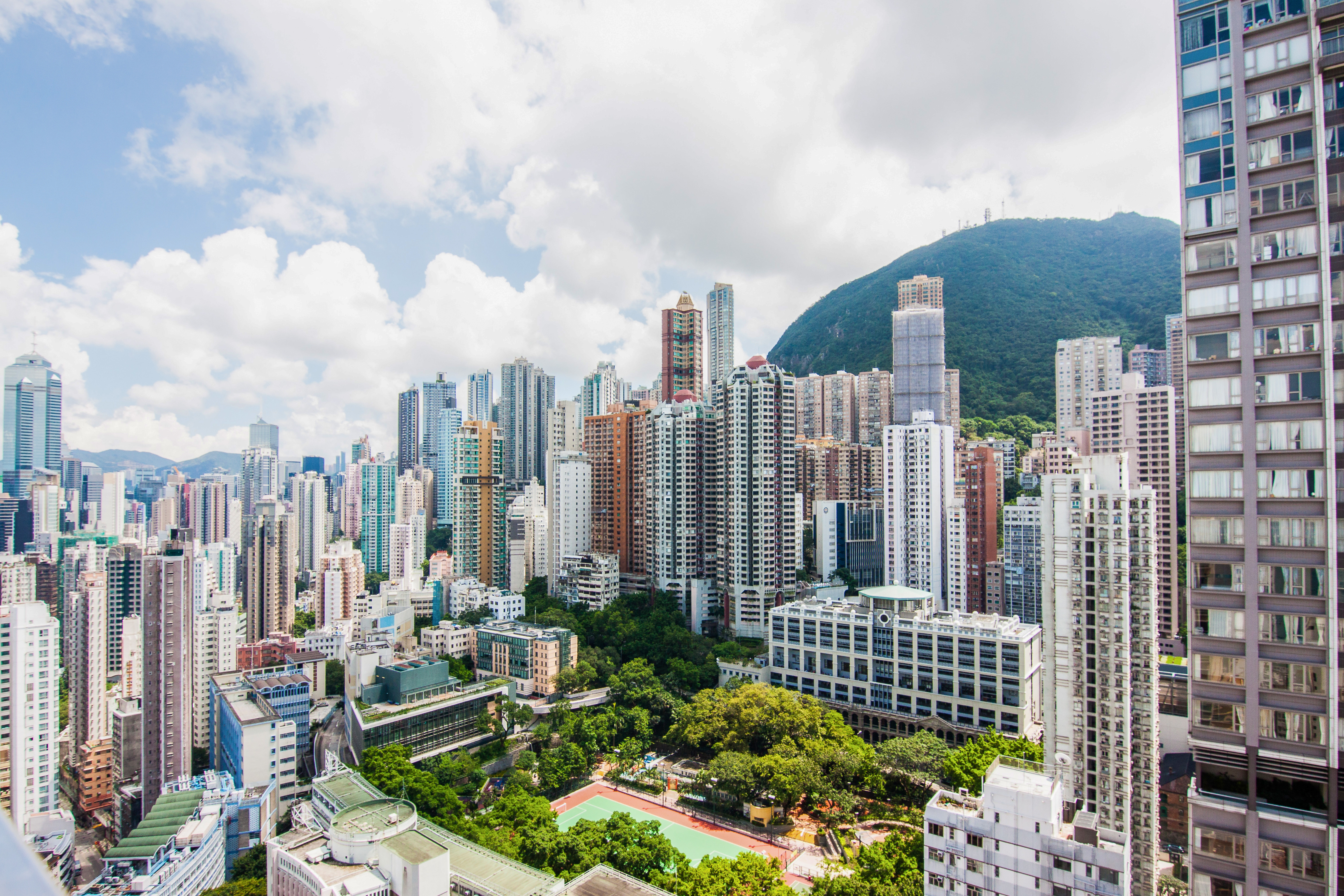 Middle Hill Residential View from Best Western Harbourview Hotel, Hong Kong